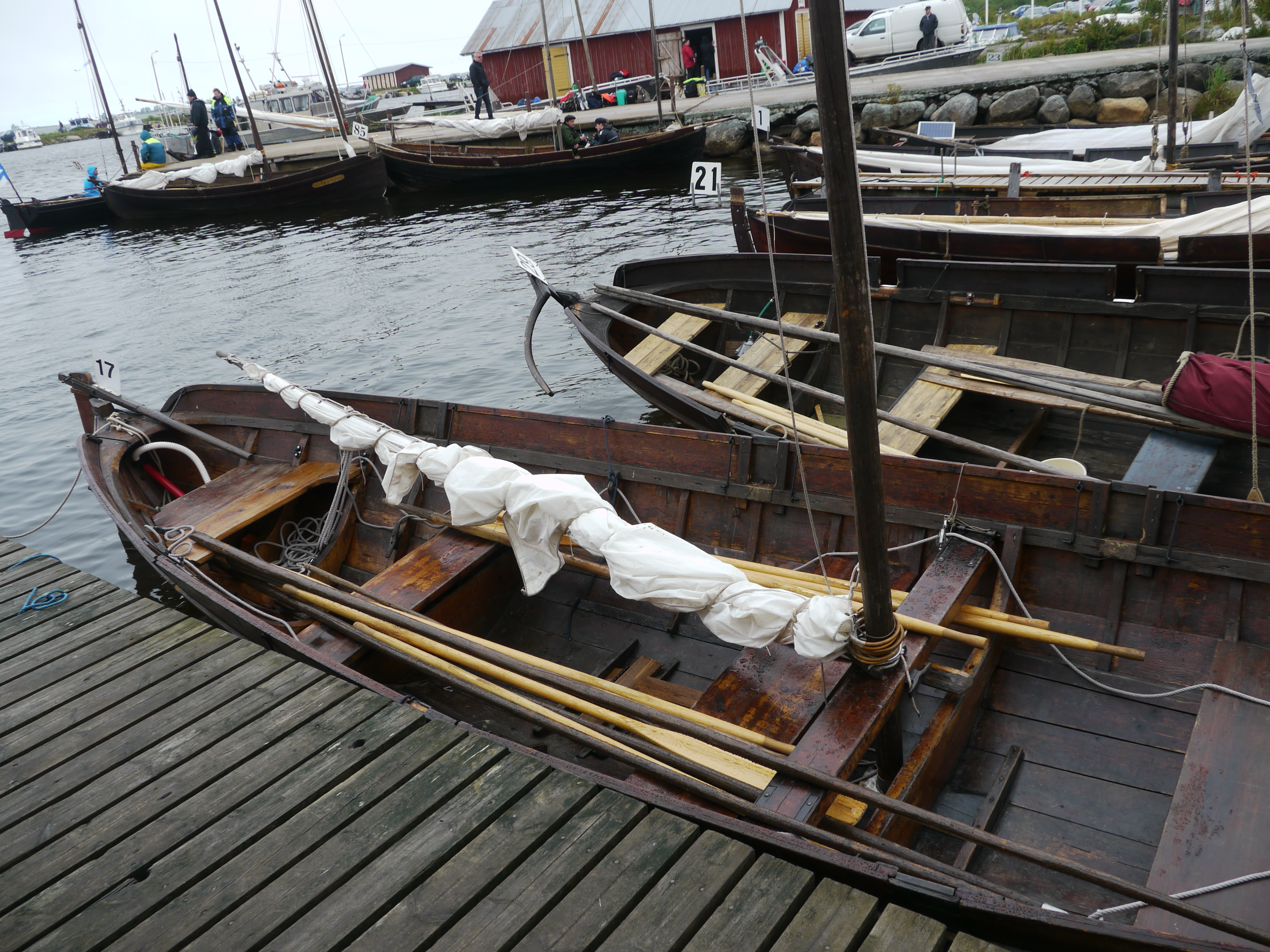 Traditional post ships are waiting in the harbour of Svedjehamn, Björkö, Finland, for departure to Zweden.